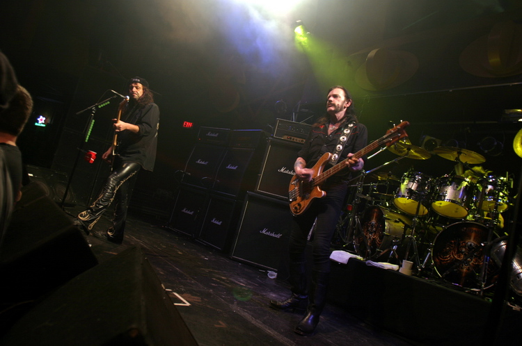 Motorhead Live at Reds, Edmonton, May, 2005